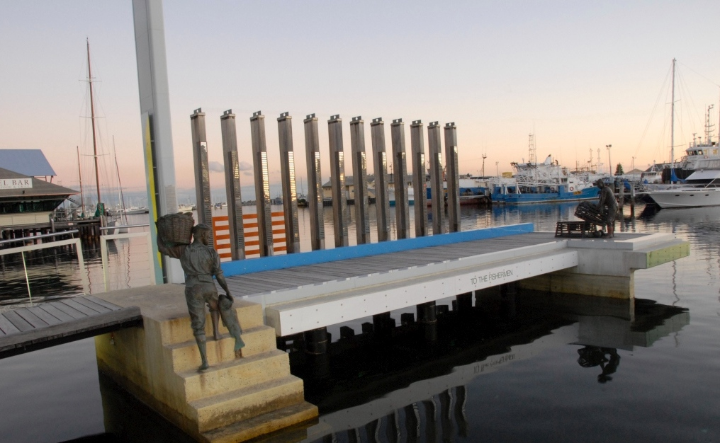 Digital image of small harbour immediately south of Fremantle port. The foreground show a jetty and two statues constructed as a memorial to the fisherman of Fremantle.